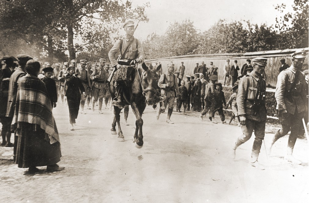 Pierwsza Kompania Kadrowa (First "Cadre" Company of Polish Army) in Kielce, 1914